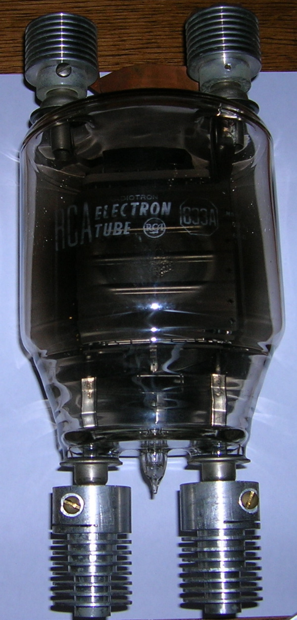 An RCA Radiotron 833A transmitter vacuum tube